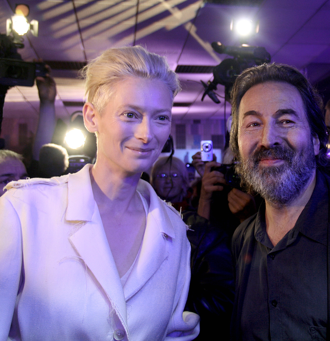 Tilda Swinton and Hans Hurch at the opening evening of the Vienna International Film Festival 2009, Gartenbaukino/Vienna.